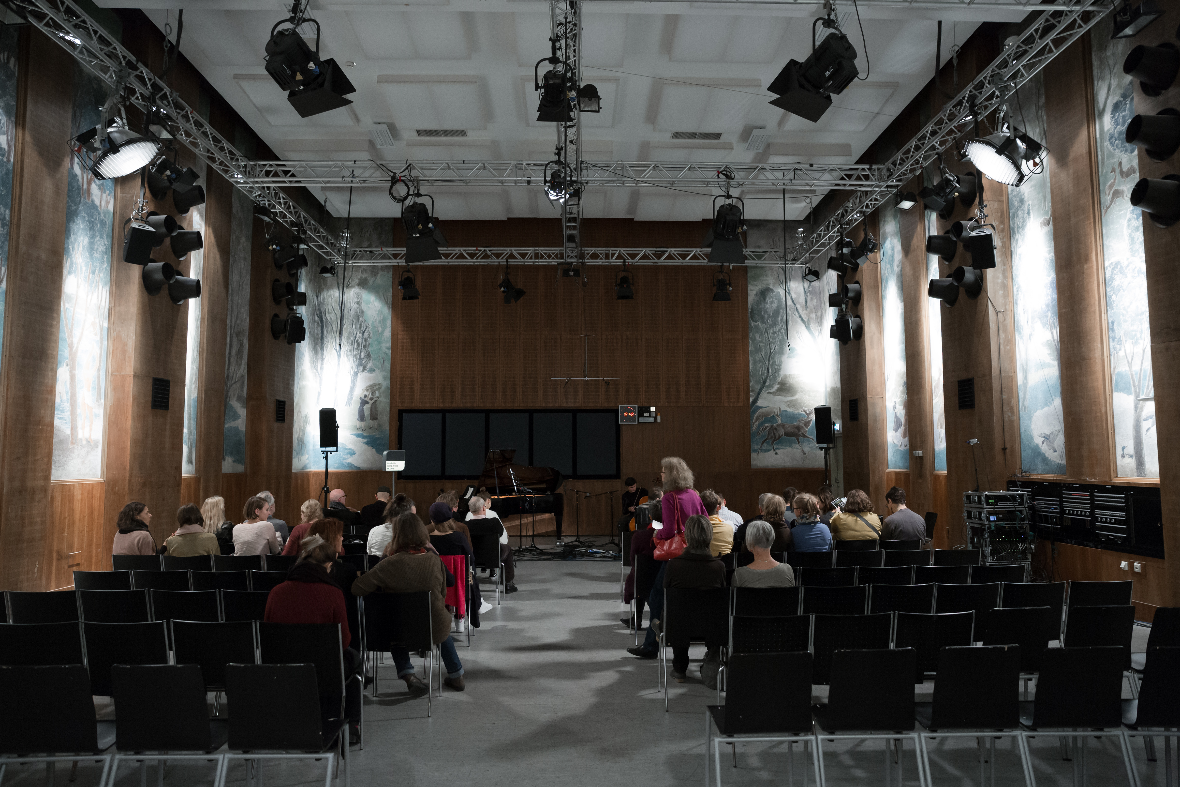 Violetta Parisini and Lukas Lauermann, concert at Radiokulturhaus in Vienna, Austria.